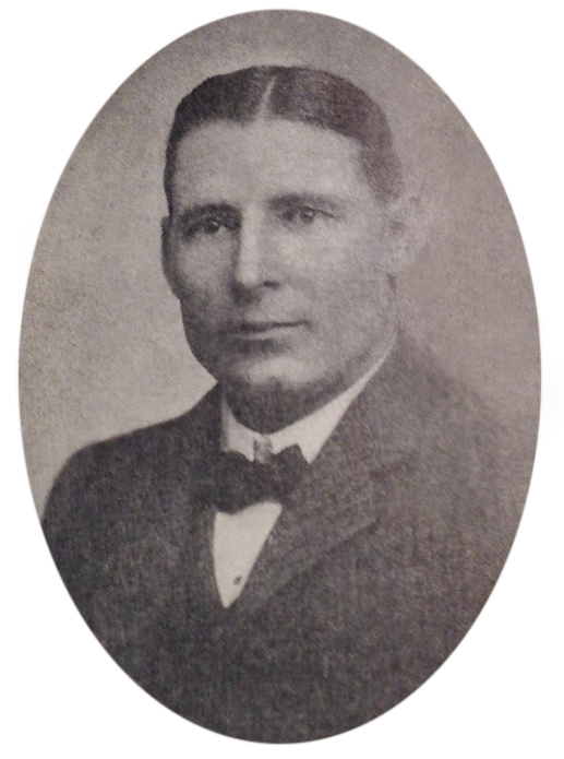 William A. Hinton, 1909. Minnesota State Senator.